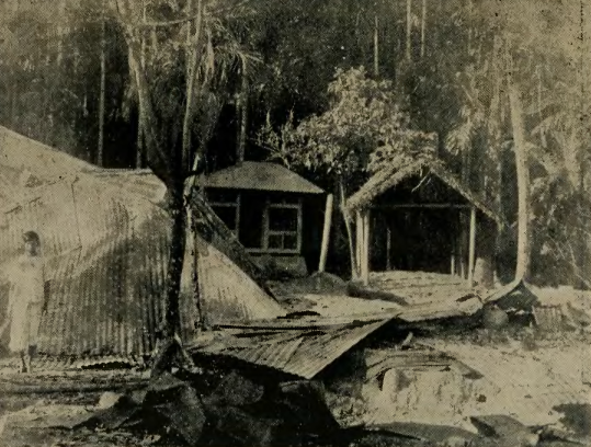 The image is scanned from a the book "Short Report of Hindu Mahasabha Relief Activities during Calcutta Killing and Noakhali Carnage", published by Bengal Provincial Hindu Mahasabha in 1946. The image shows a destroyed Namashudra house in Chandpur.